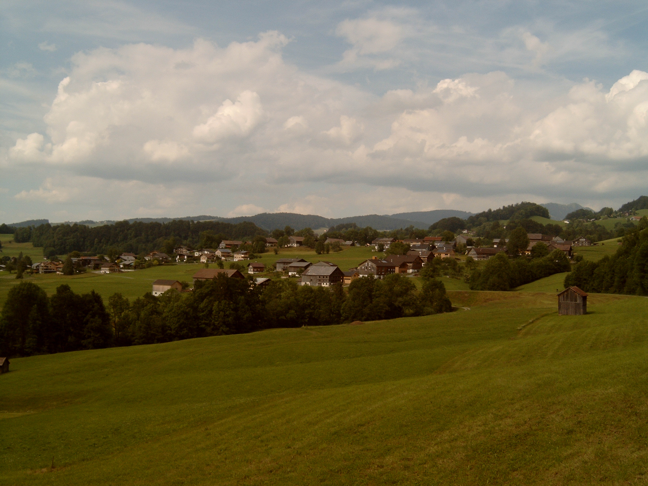 Egg, view to the village